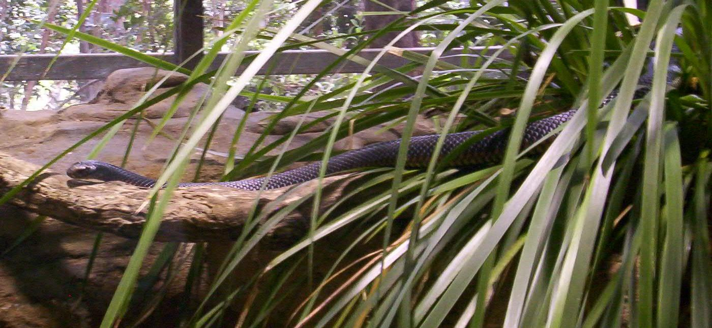 Red-Bellied Black Snake. Taken at the Walkabout Wildlife Centre, Brisbane Forest Park, Brisbane, Queensland, Australia on 10 March, 2008